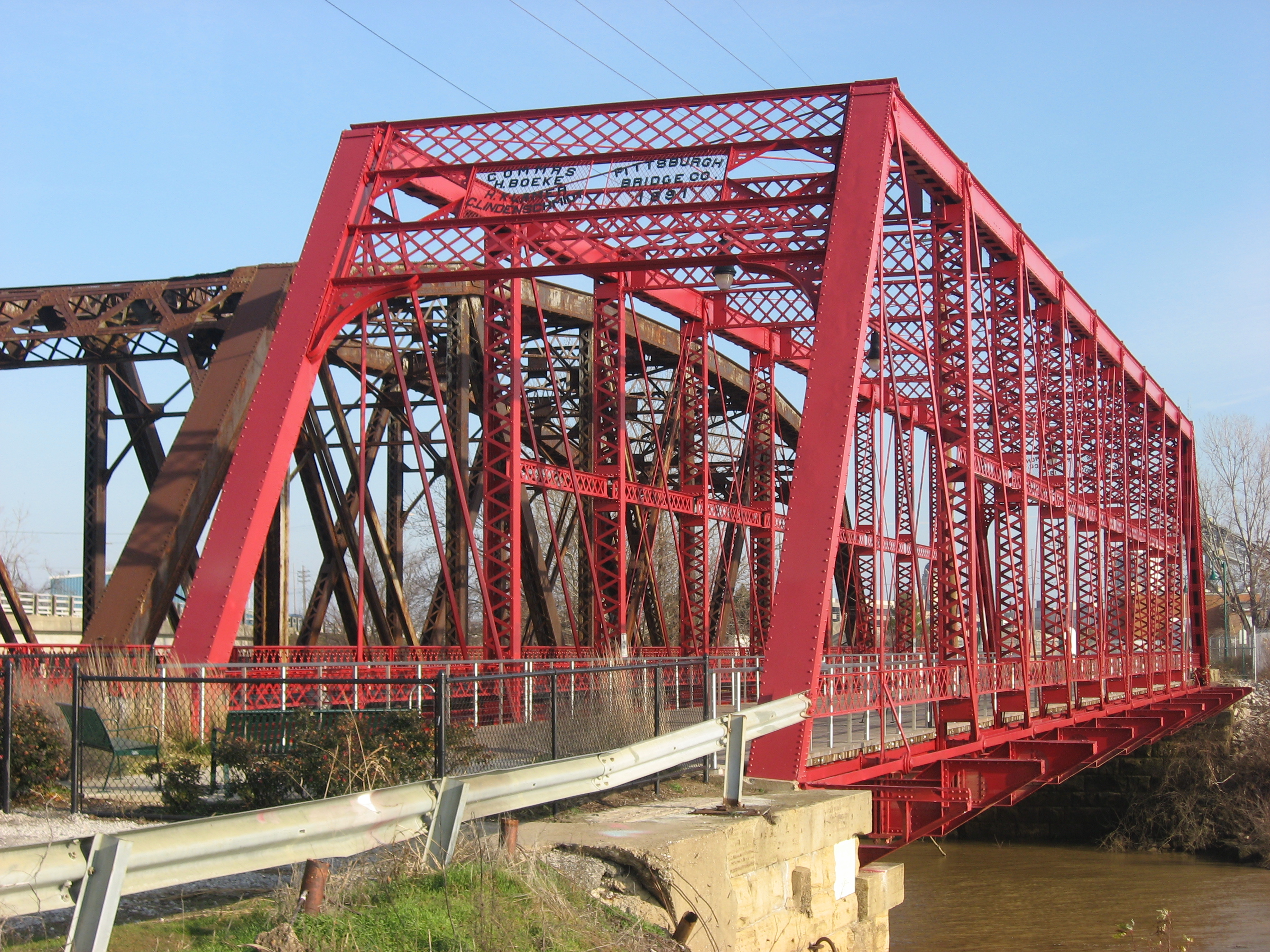 Western portal and southern (downstream) side of the Ohio Street Bridge, which formerly carried Ohio Street over Pigeon Creek at its confluence with the Ohio River in Evansville, Indiana, United States. Built in 1891, it is listed on the National Register of Historic Places.